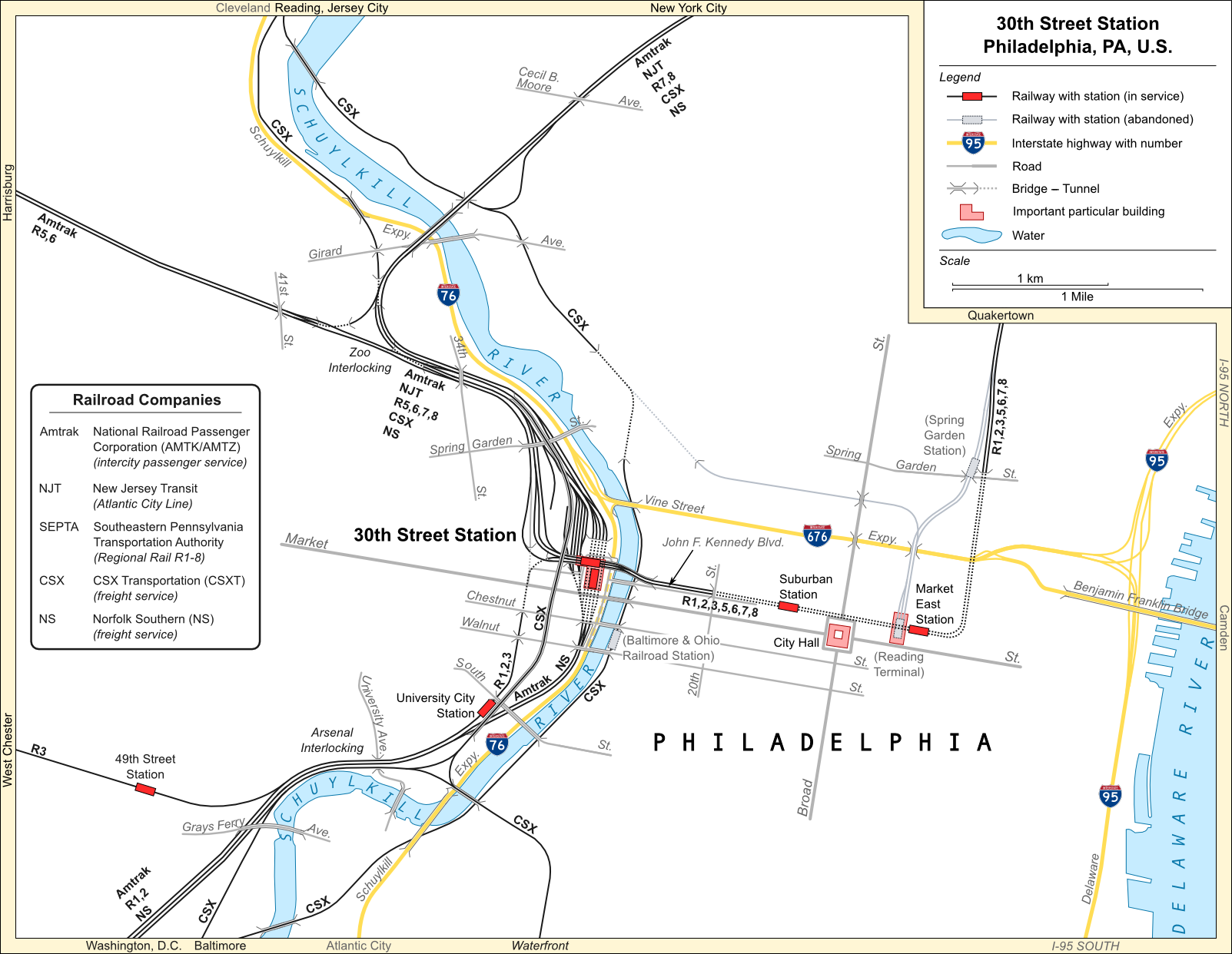 General map of 30th Street Station, Philadelphia, Pennsylvania, United States (English version).